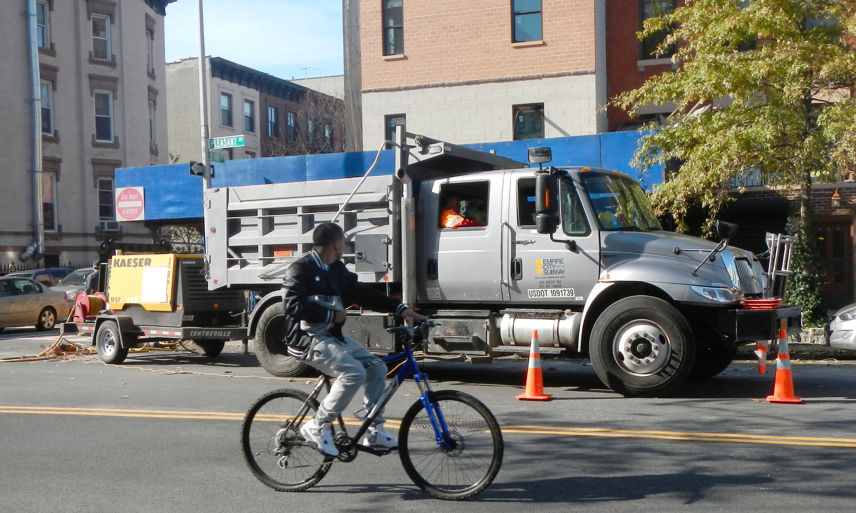 Looking west across Pleasant Avenue at maintenance truck.